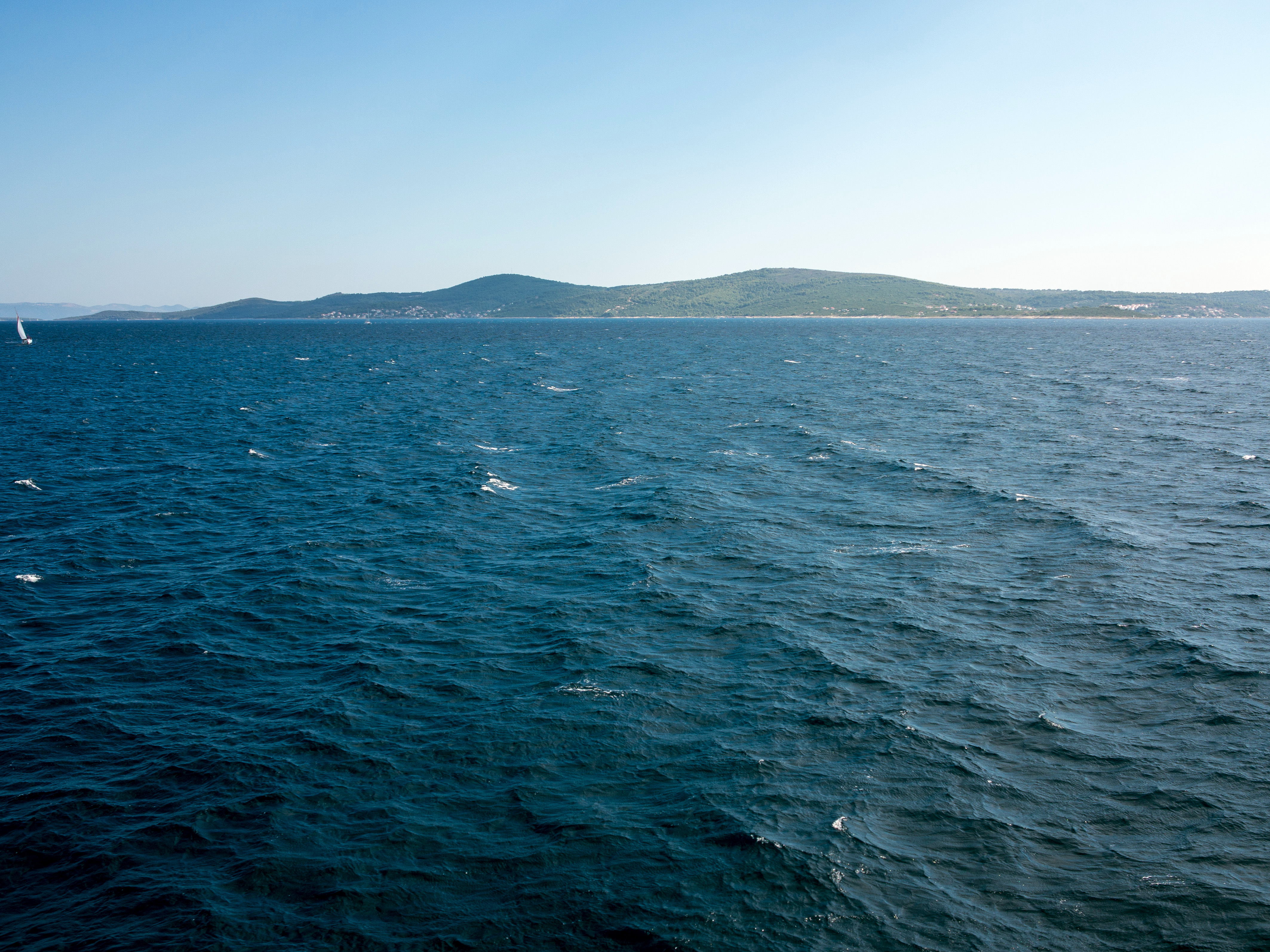 Island of Šolta / Croatia / Adriatic Sea, north side, photographed on the ferry from Split to Rogač- View to the southeast. Left on the shore the port of Stomorska, the right bay of Nečujam.